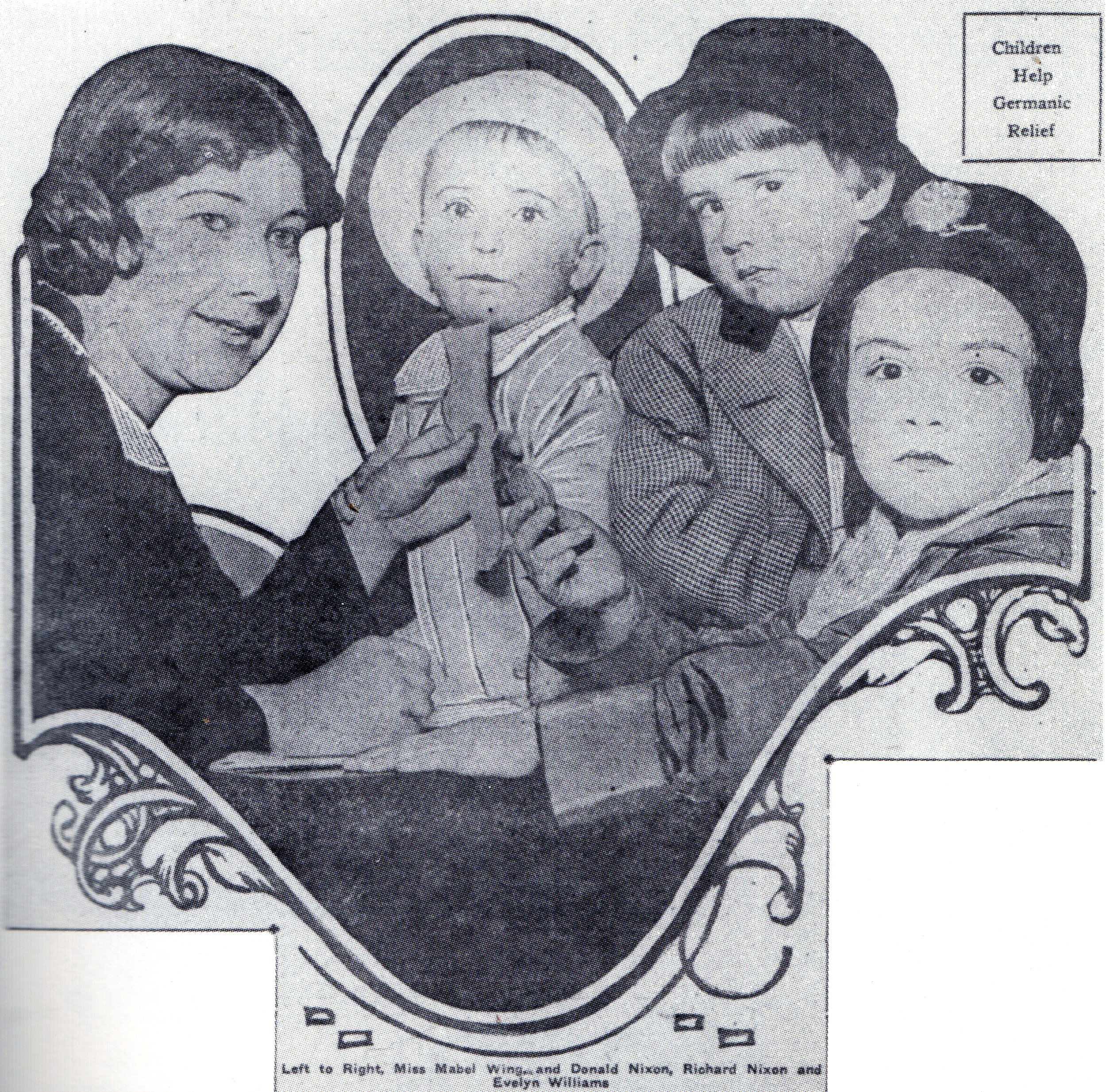 Future President Richard Nixon makes his first newspaper appearance, 1916. This image appears in his political memoir, In the Arena on the third unnumbered photo page following page 192. In the image caption, Nixon states, "The first time my picture appeared in the paper was in 1916. My mother gave us a nickel each to put in a collection basket for war orphans, and a photographer snapped our picture.